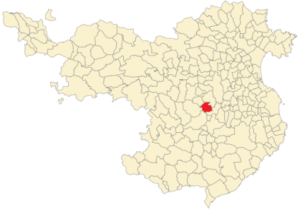 Palol de Revardit